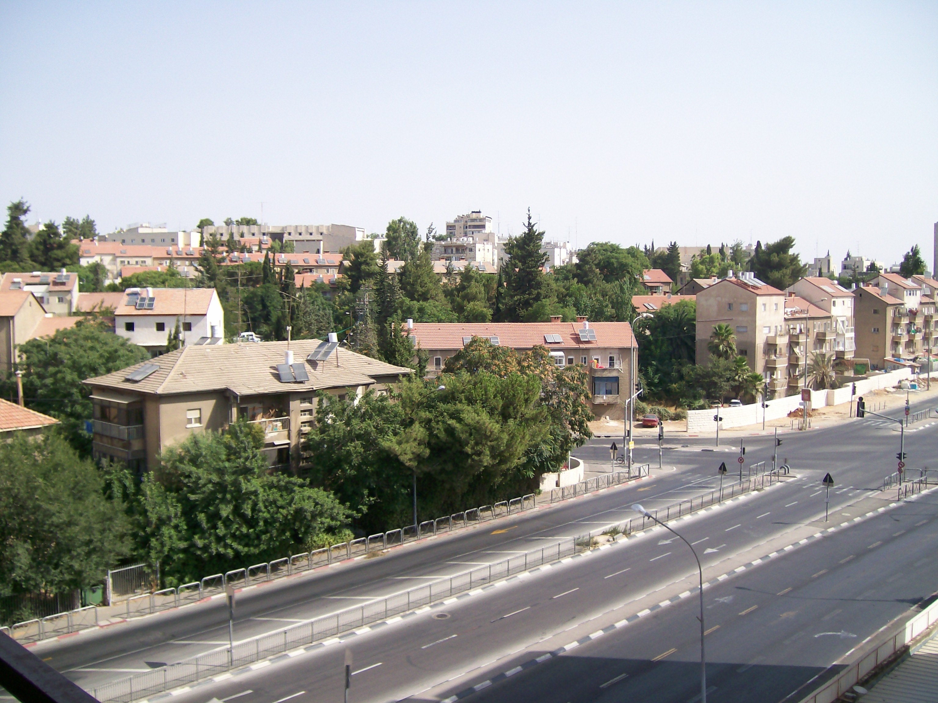 Typical rooftops in Jerusalem.